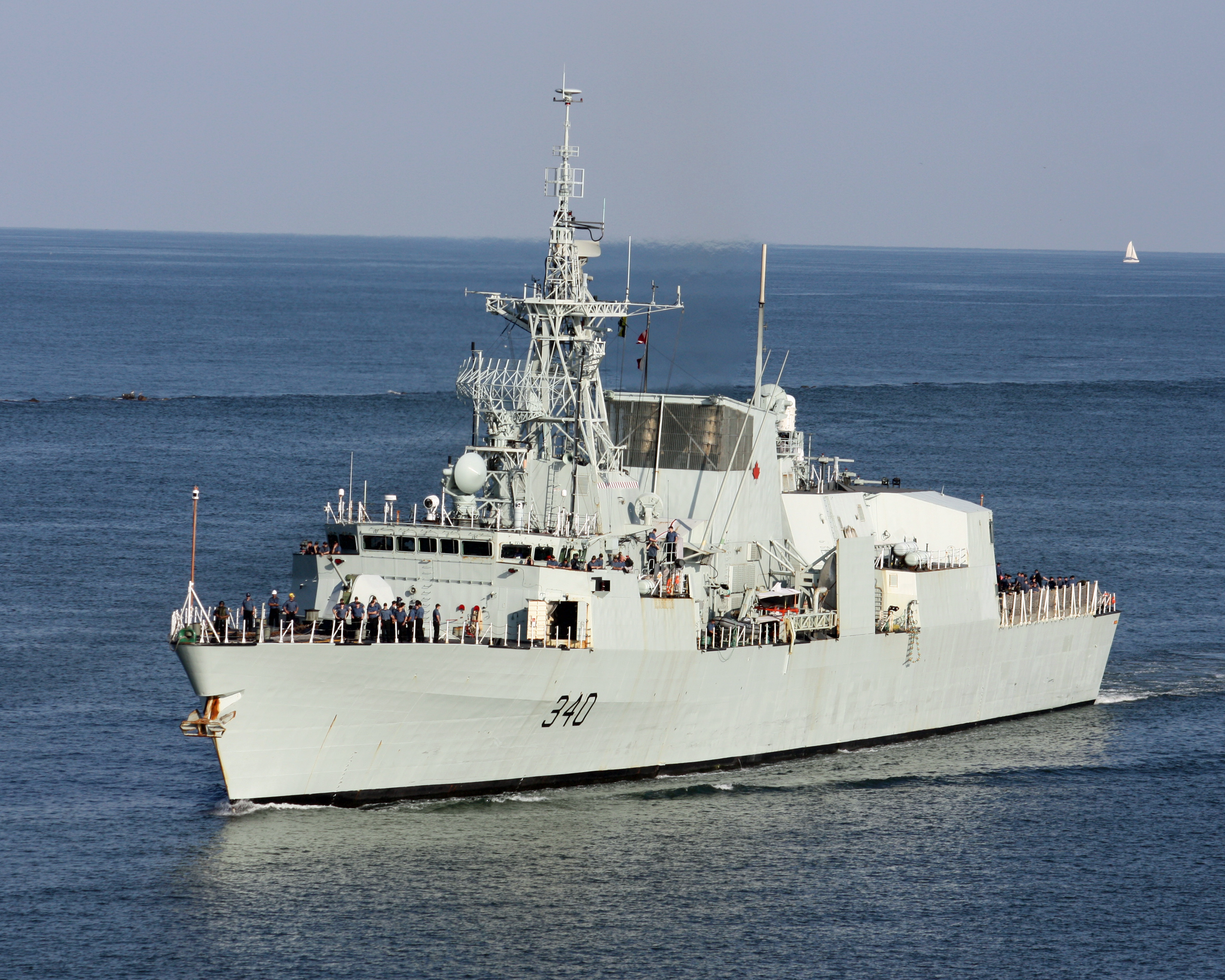 The Royal Canadian Navy frigate HMCS St. John's (FFH 340) sailing into Charleston Harbor, Charleston, South Carolina (USA), on 23 August 2010.